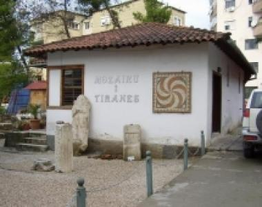 The mosaic of Tirana.